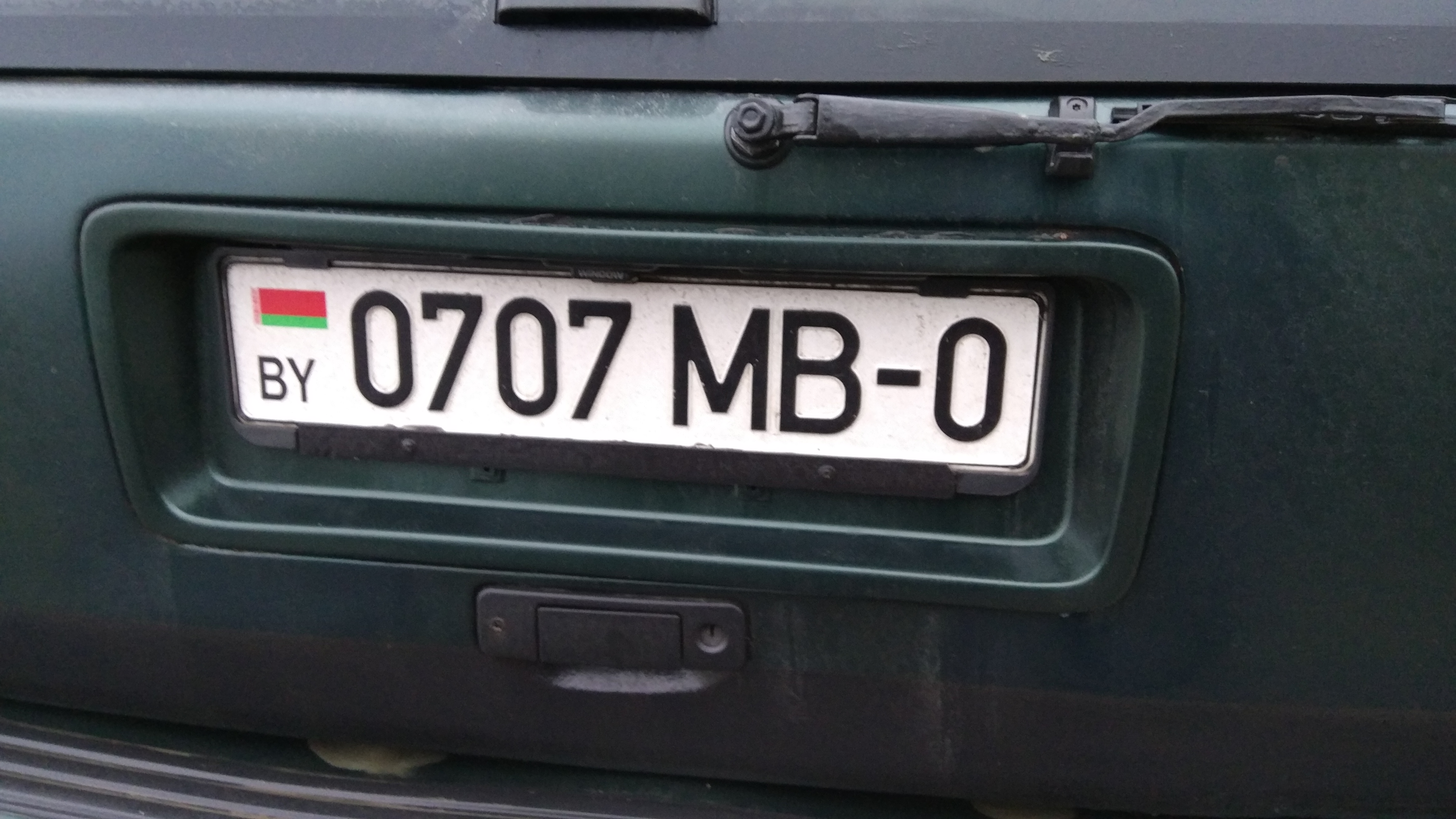 License Plate Belarus Ministry